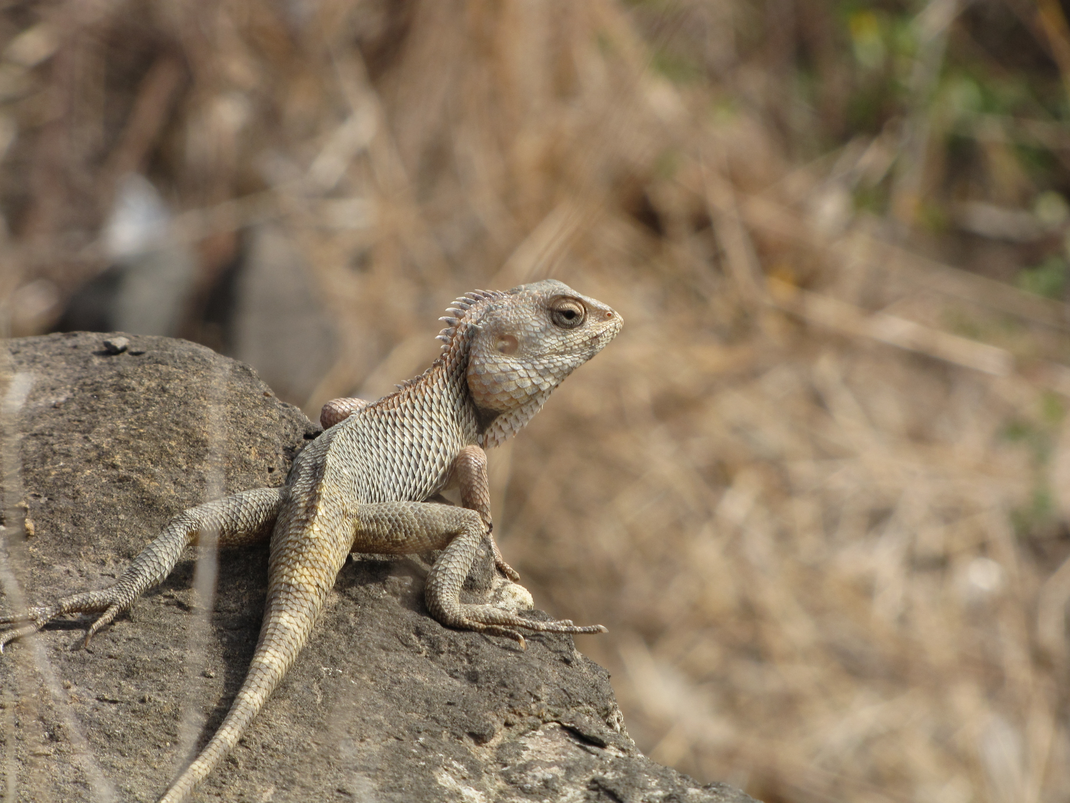 a lizard in Pune.